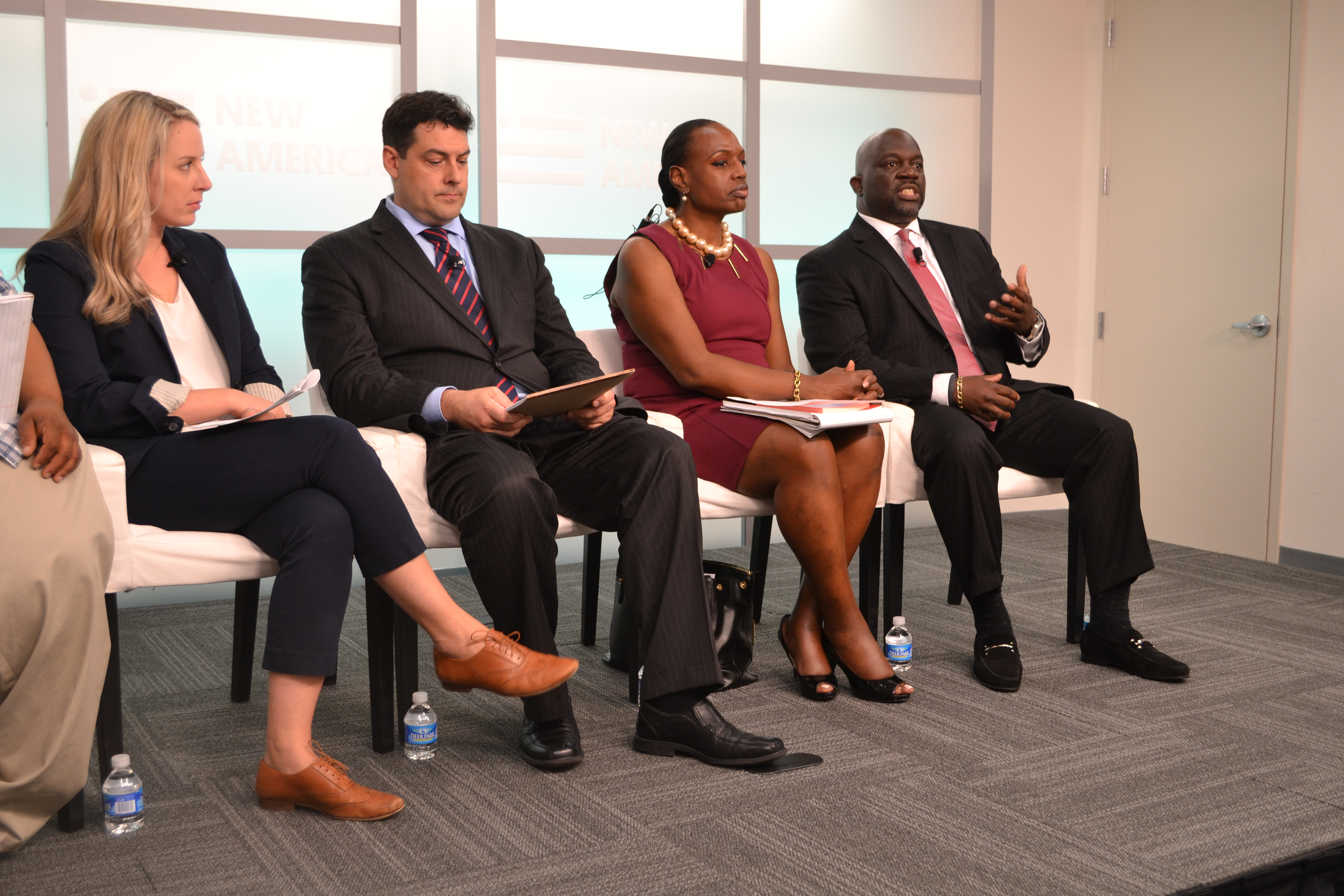 The conference, " Who's watching who?" has brought together police officers, community activists, criminologists and criminal justice professors